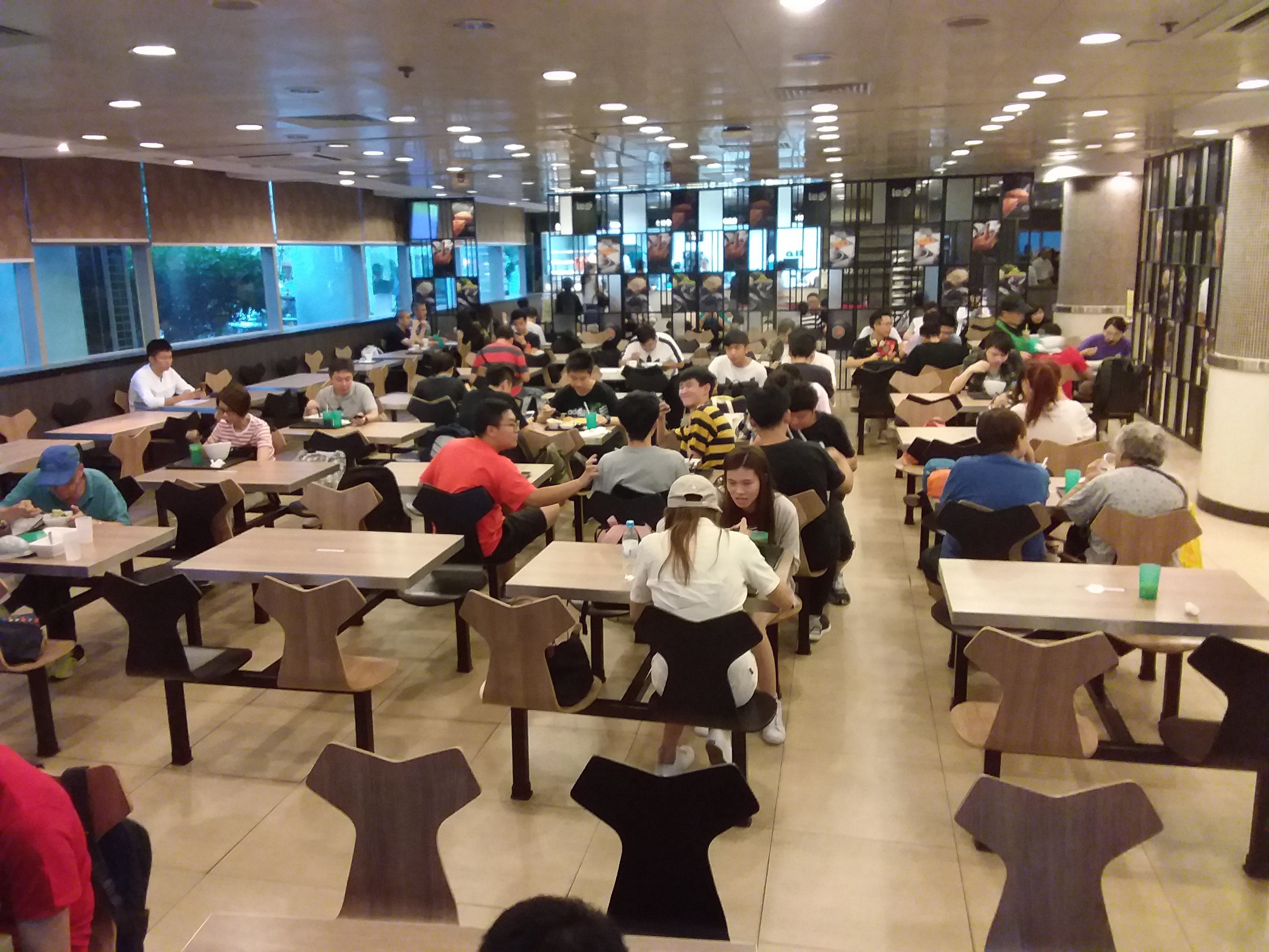 HK 何文田 Ho Man Tin campus OUHK 香港公開大學 Open University of Hong Kong 牧愛街 Good Shepherd Street zh-yue:開放日 Open Day in September 2019